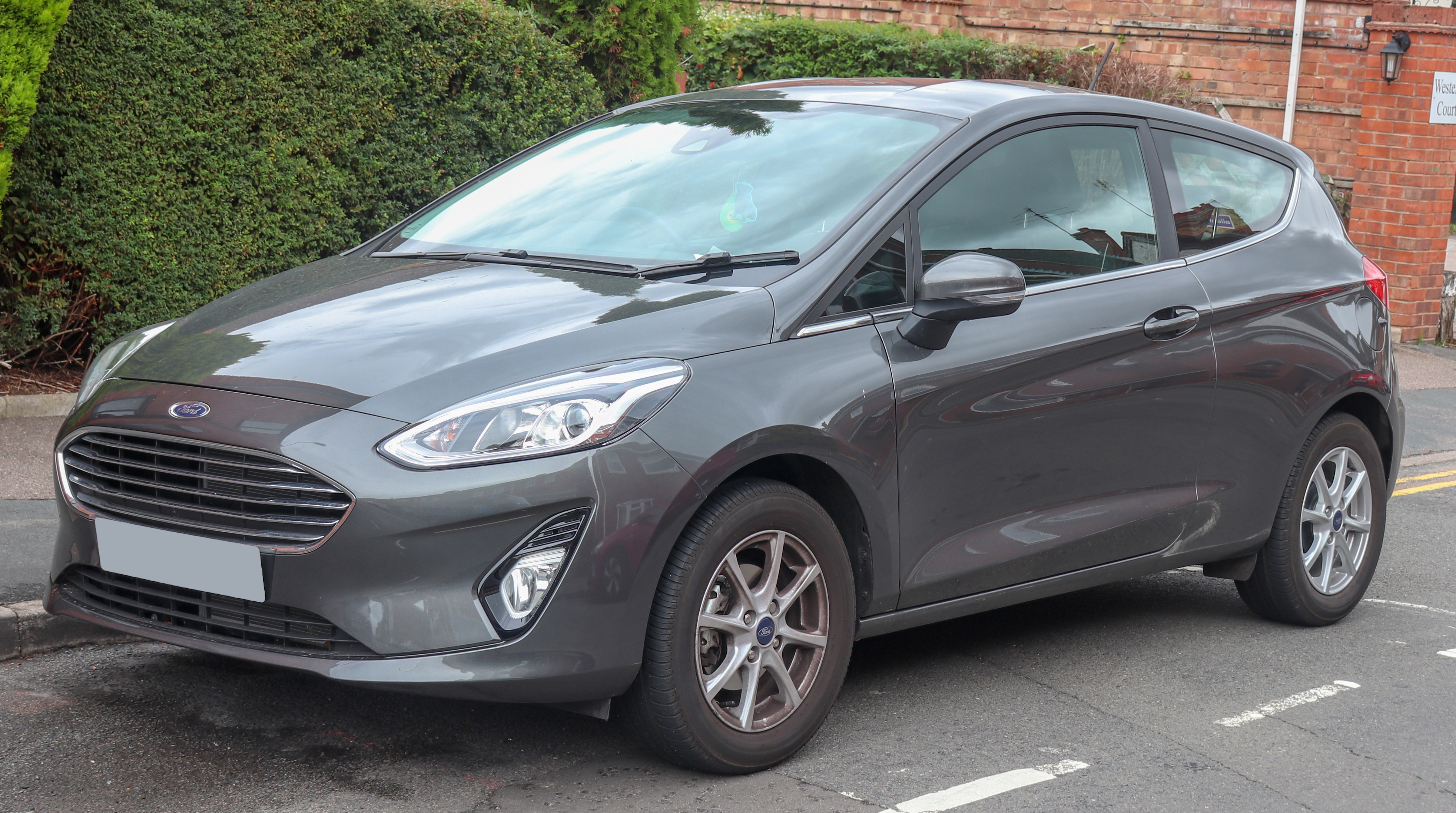 2017 Ford Fiesta Zetec 1.1 Front (Early 17 Reg) Taken in Warwick